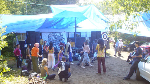 Freeteknitians doing their thing in the sunshine, Canada Teknival 2004 This image comes from Dr Fester's FreeTeknival gallery. It was taken by Nic Fit and is copylefted. all changes remain free from copyright.